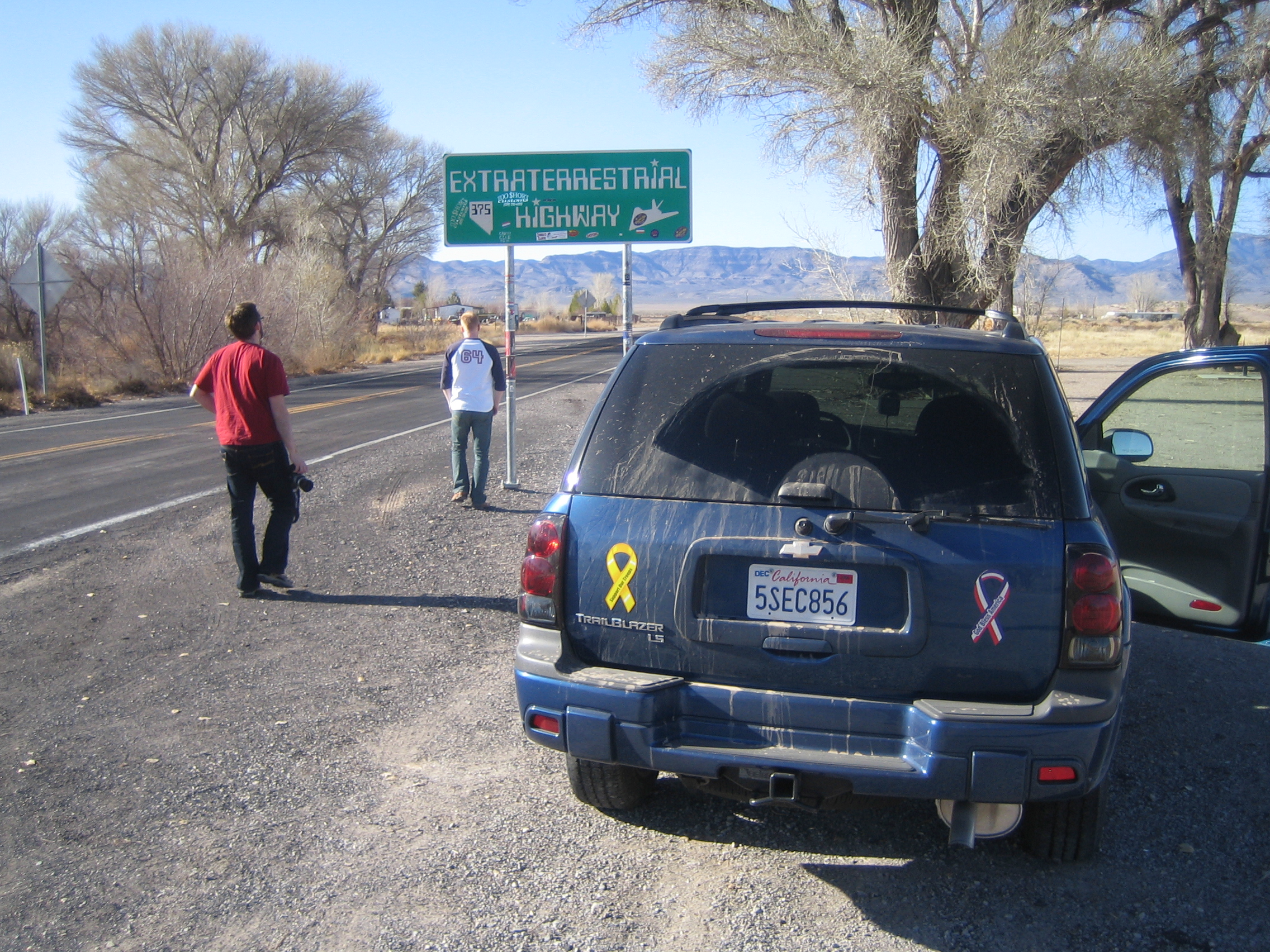 The Extraterrestrial Highway Roadsign